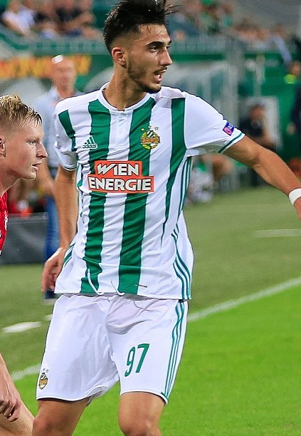 Rapid Vienna VS. Spartak Moscow 20 September 2018